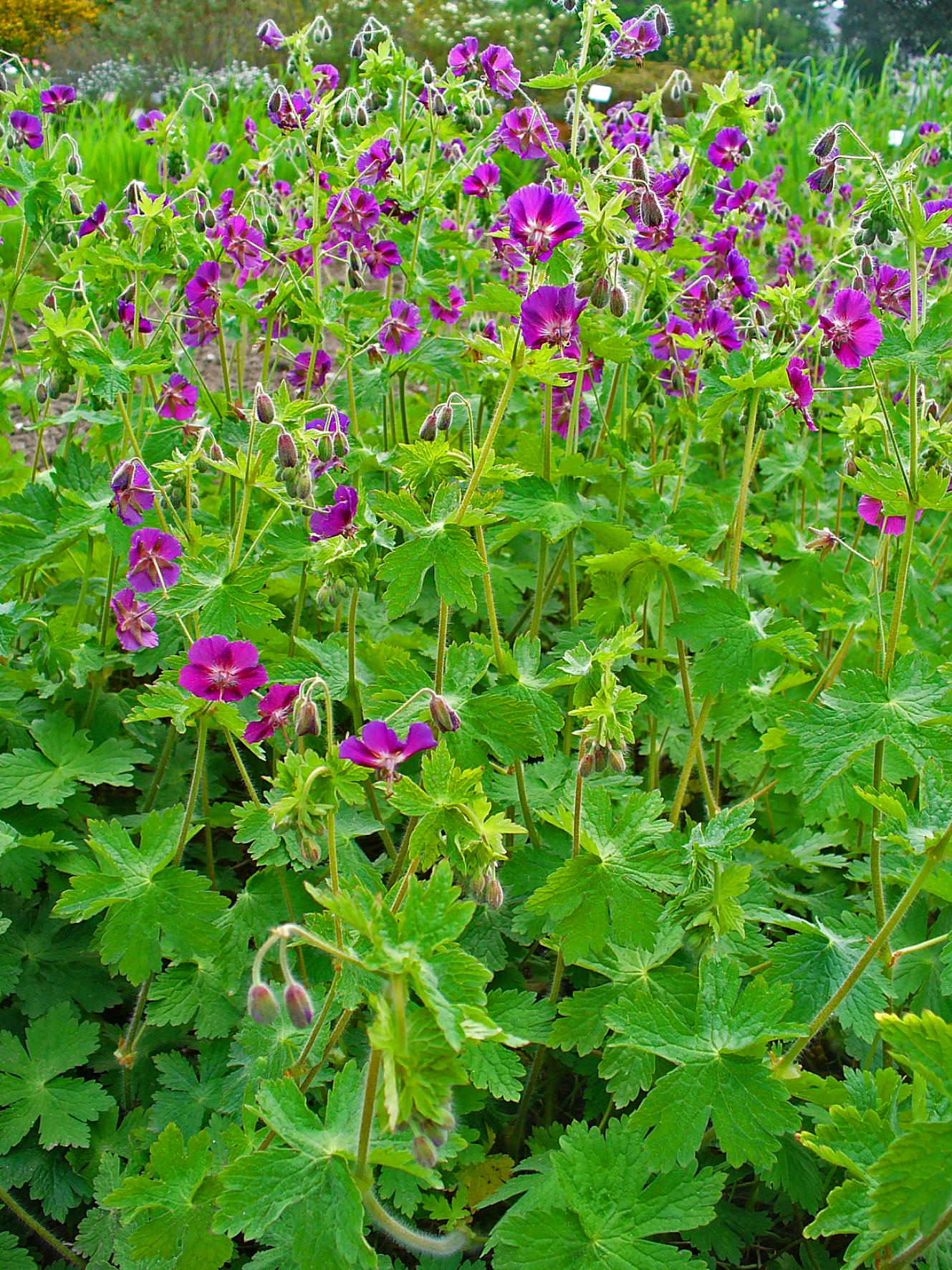 Geranium phaeum, Geraniaceae, Dusky Cranesbill, Mourning Widow, Black Widow, habitus; Botanical Garden KIT, Karlsruhe, Germany.